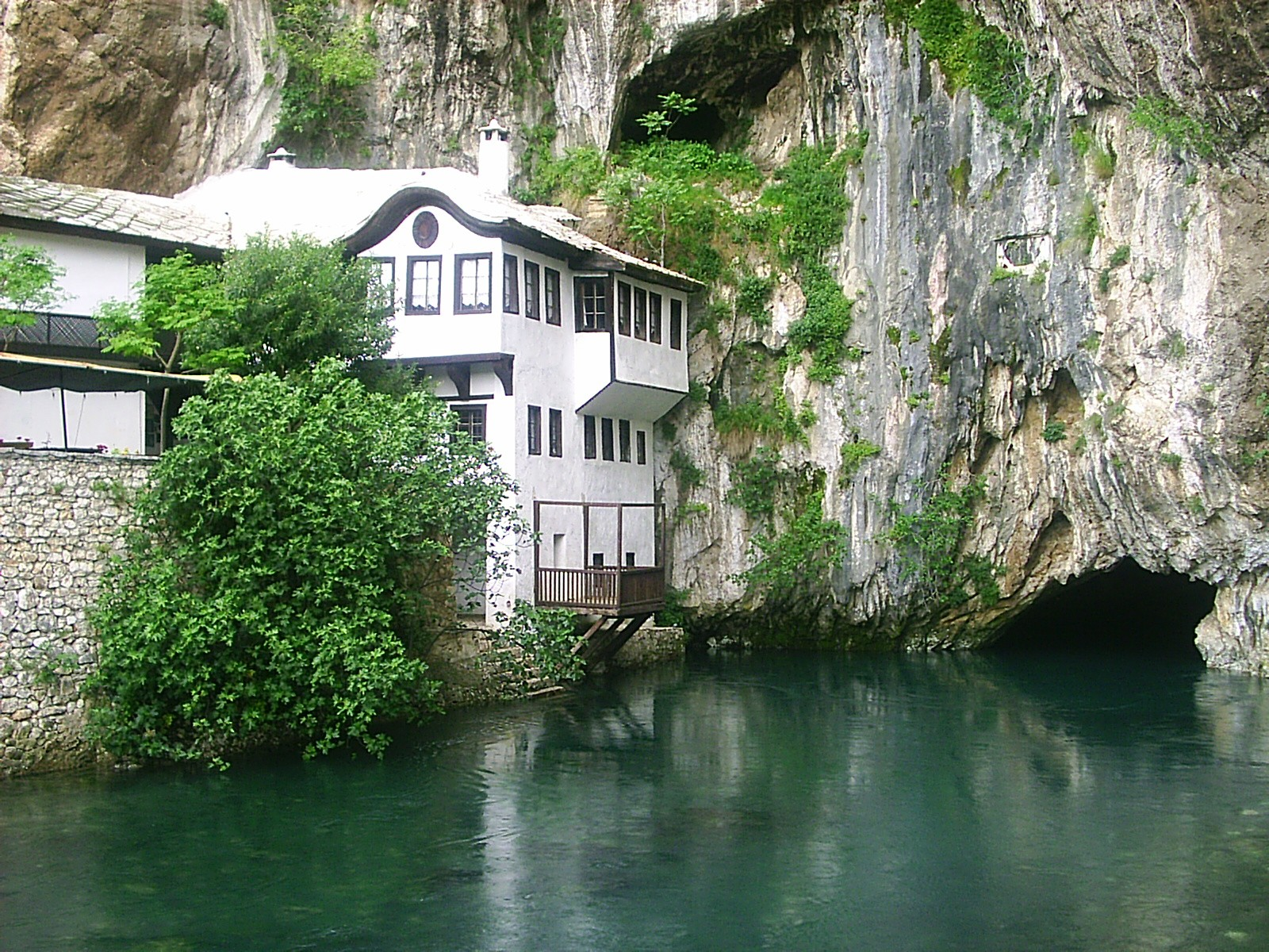 A Tekija building near Blagaj in rocky part of Bosnia and Herzegovina